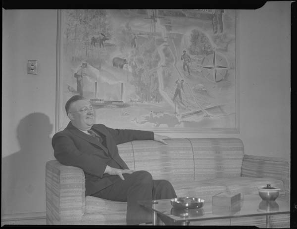 Source: Archives of Ontario Digital Image Number: I0002743.jpg Title: Roy Thomson Date: 1945 Creator: Gordon W. Powley Format: Black and white negative Reference Code: C 5-1 Item Reference Code: C 5-1-0-113-1